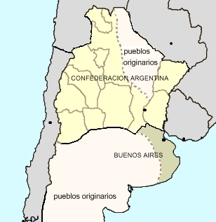 Constitutional Argentine Confederation and independent Buenos Aires Province, 1858.